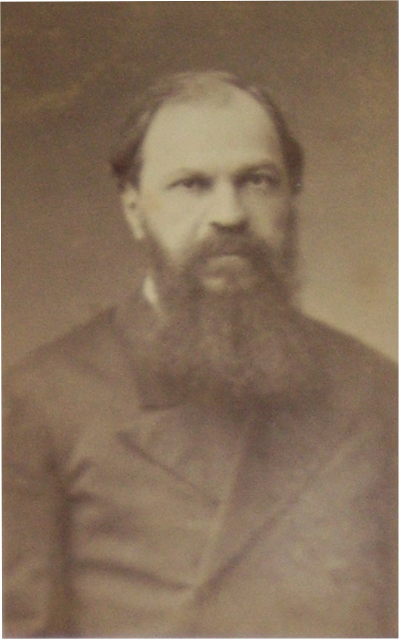 A W Skulskiy